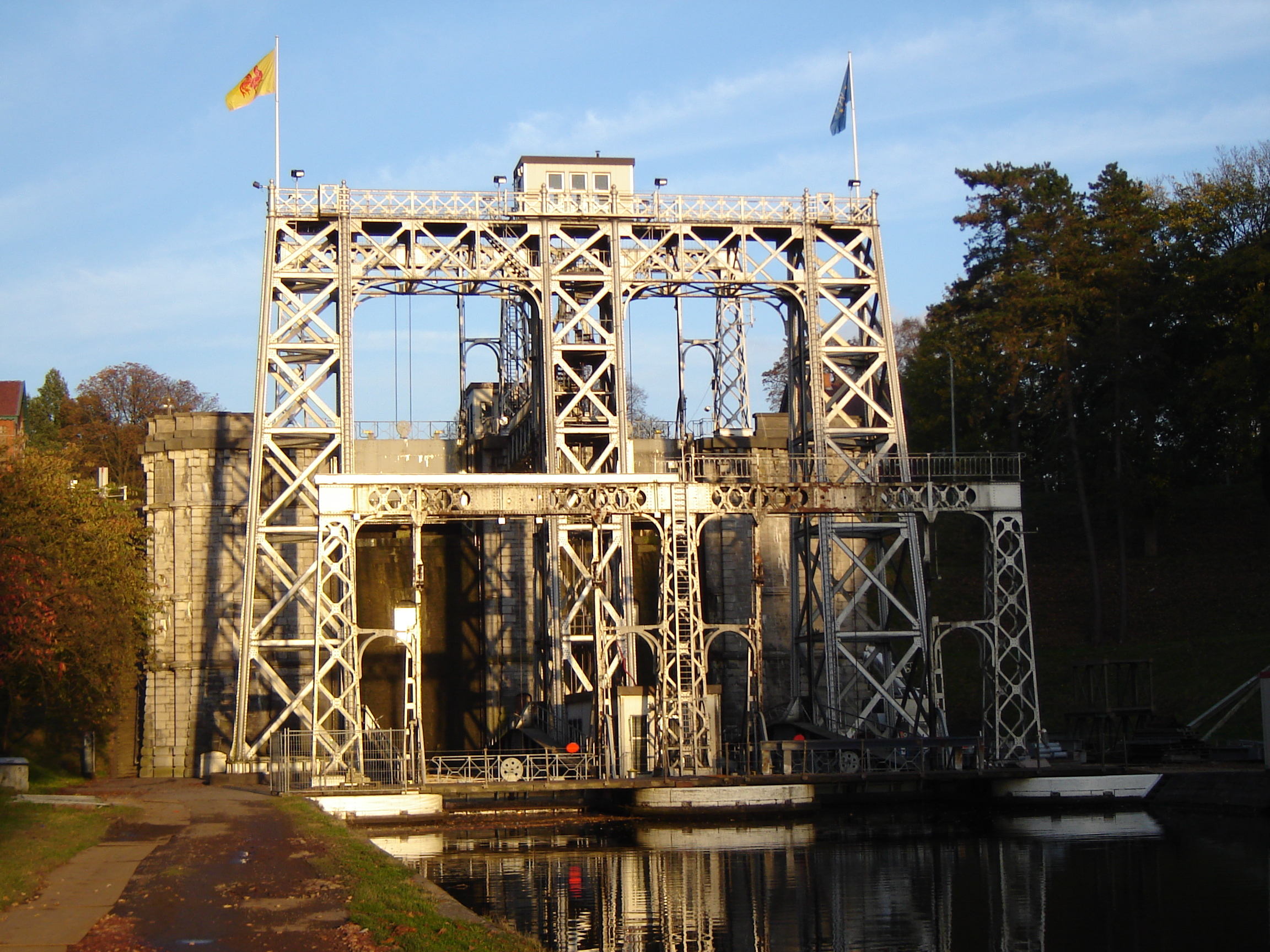 Ascenseur no 2. Hydraulic boat lift on the old Canal du Centre in Houdeng-Aimeries. Houdeng-Aimeries, La Louvière, Hainaut, Belgium